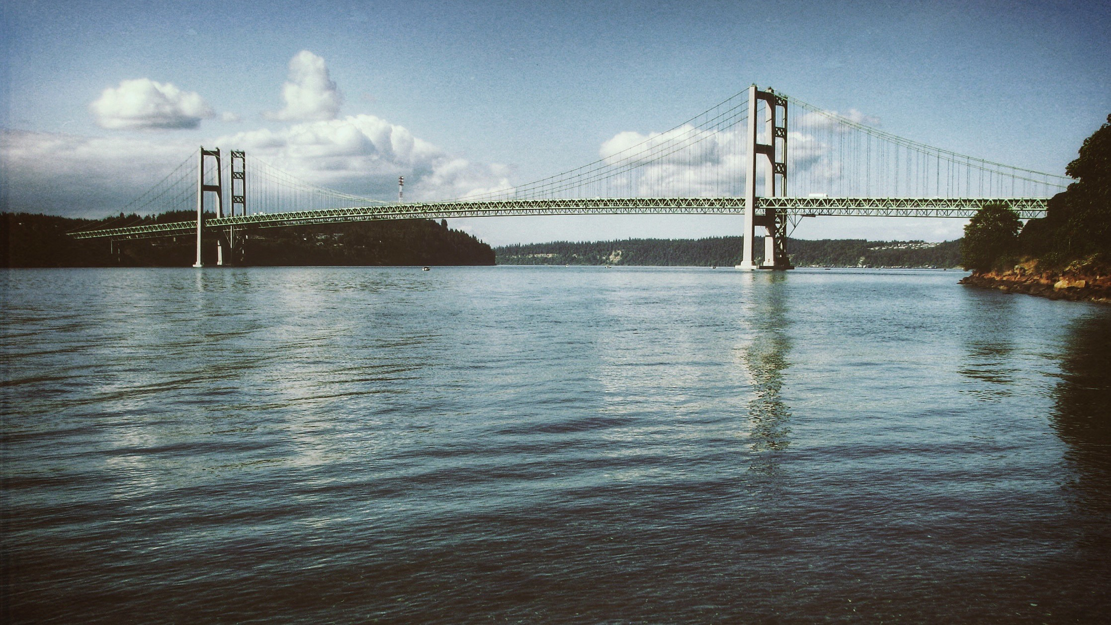 Tacoma Narrows Bridges